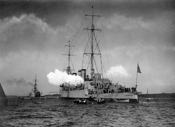 The U.S. Navy light cruiser USS Memphis (CL-13) saluting the German fleet, while visiting Kiel, Germany, in September 1926.